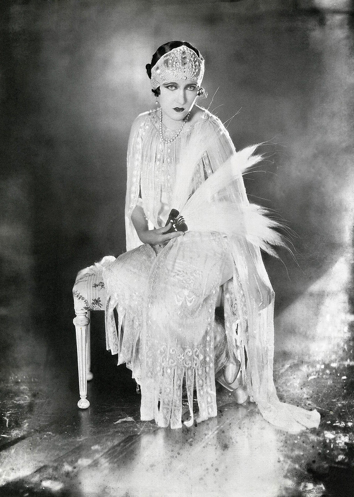 Gloria Swanson, James Abbe's photo, 1921